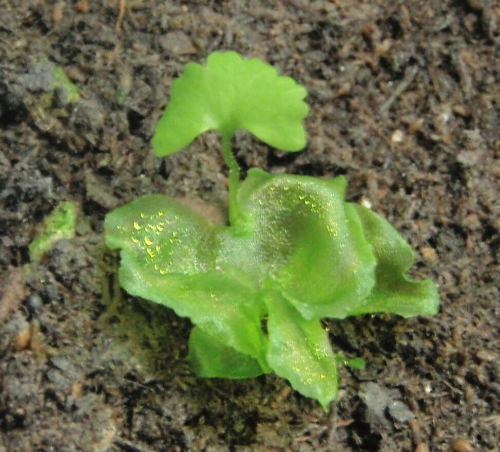 Gametophyte and sporophyte of the fern Onoclea sensibilis (barring contamination) sown in October of the same year from material from the previous fall (with a low germination rate).